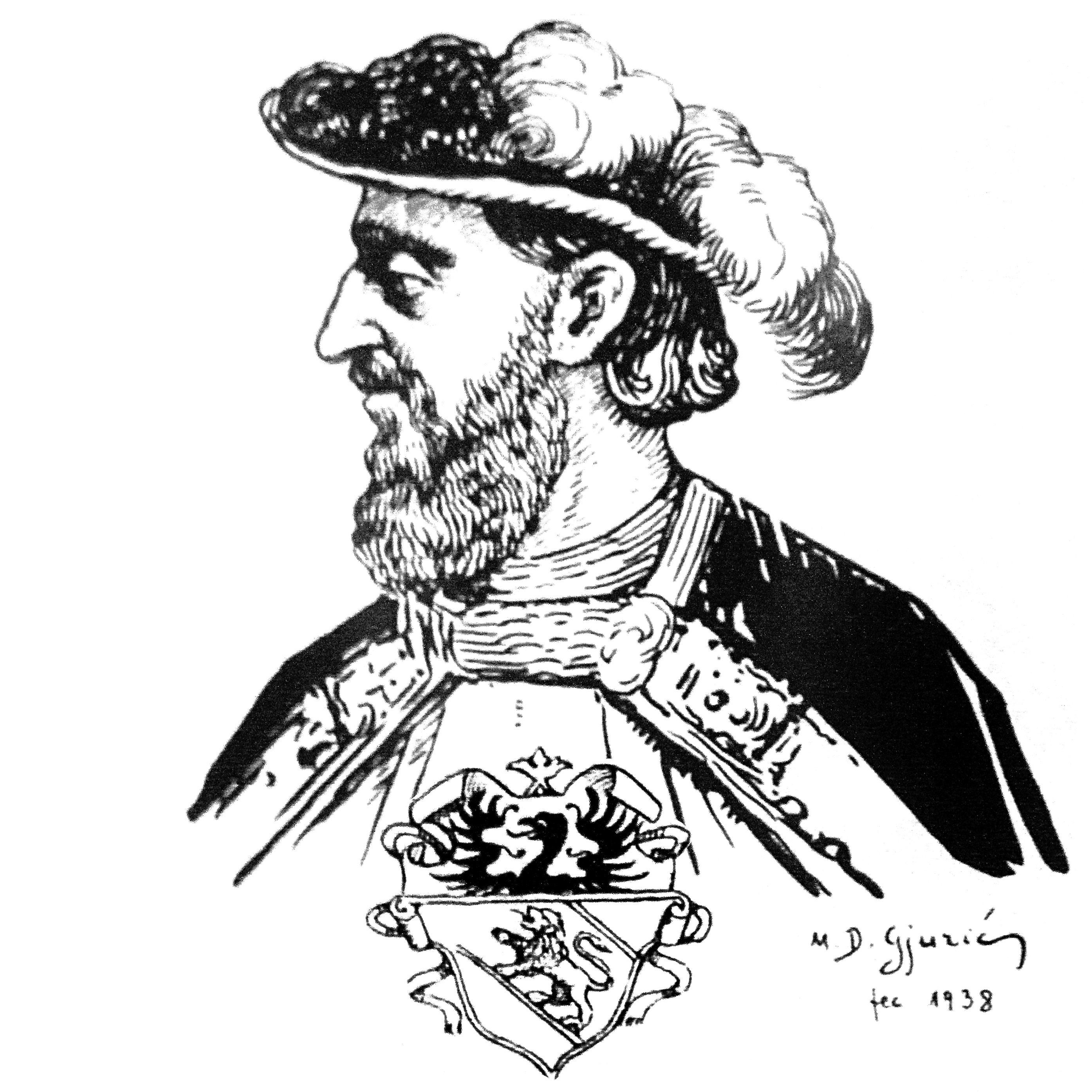 Bozidar Vukovic one of the first printers and editors of Serbian books